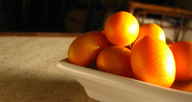 Fruits of the Oval Kumquat, Fortunella japonica, syn: Citrus japonica. Heidi Vega Aimonetti